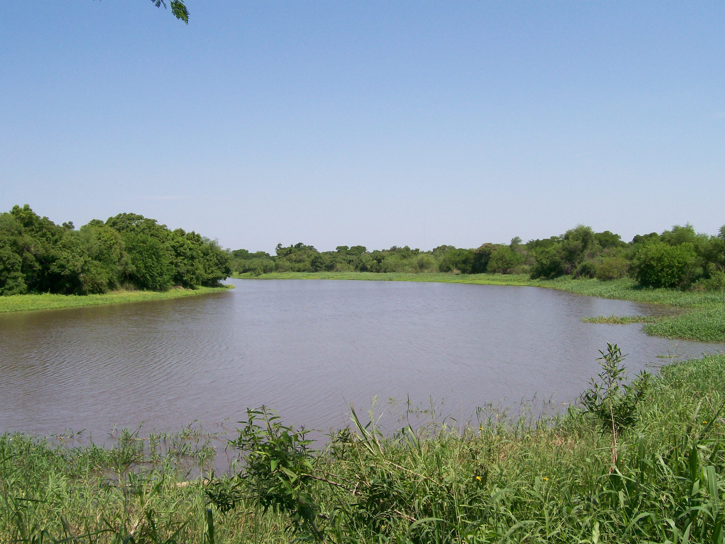 Río Negro in Resistencia, Chaco, Argentina, seen from Sarmiento Avenue, immediatly after its bridge.